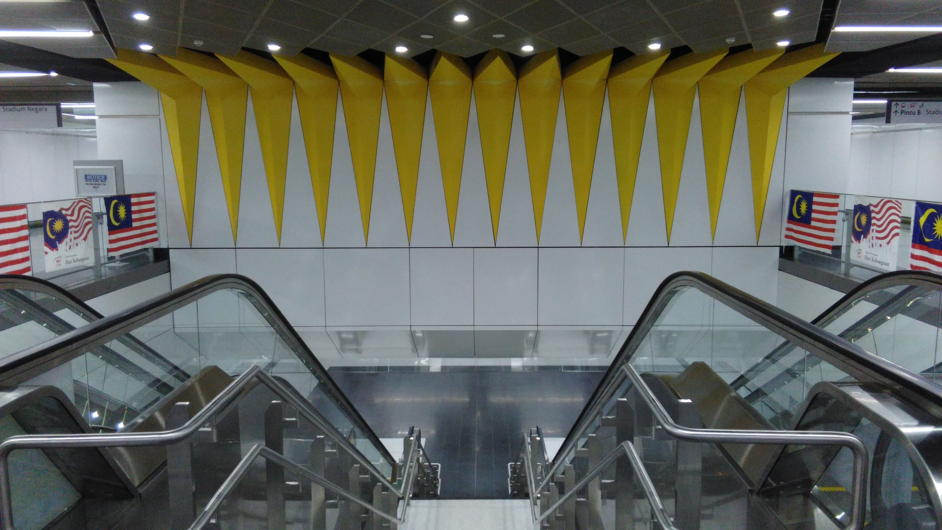 The decorative element above the staircase that leads to the concourse of Merdeka MRT station. It is a stylised representation of the 14-pointed star that can be found on the flag of Malaysia.